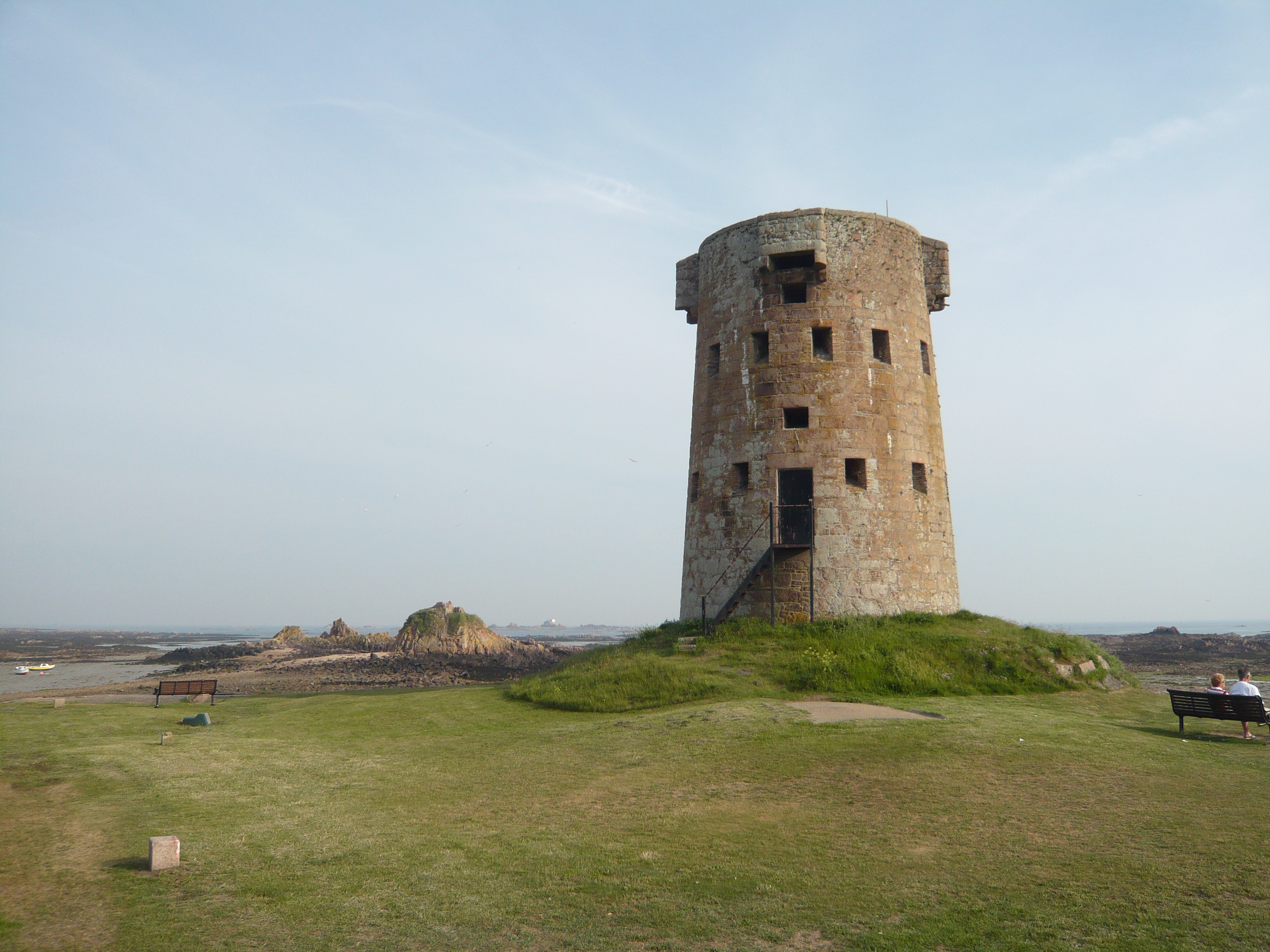 Coastal tower